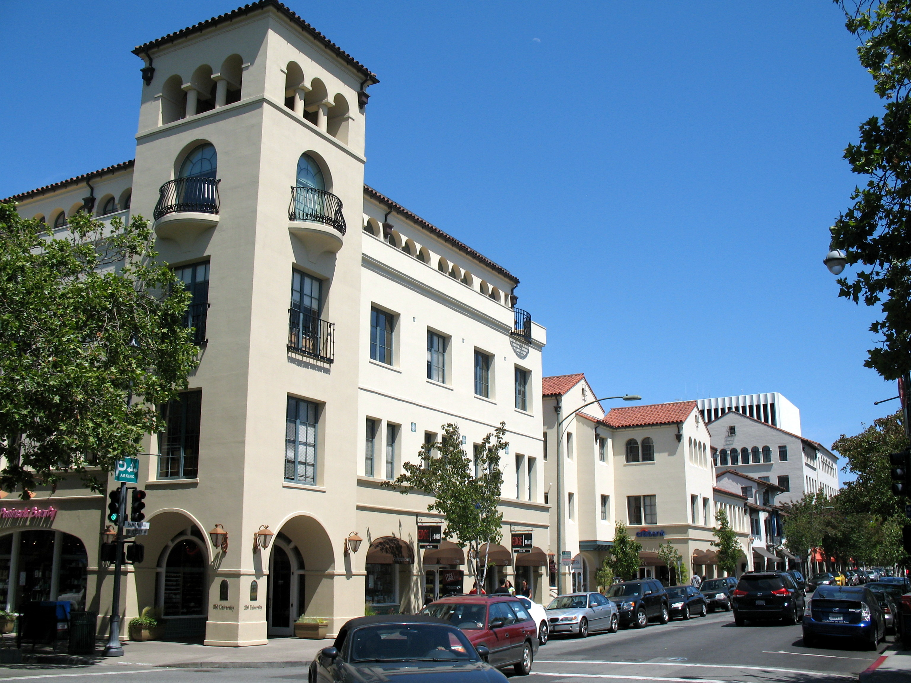 Commercial building, north side of Ramona St. from University Ave. — in the Ramona Street Architectural District of Palo Alto, California. On the National Register of Historic Places in Santa Clara County, California.